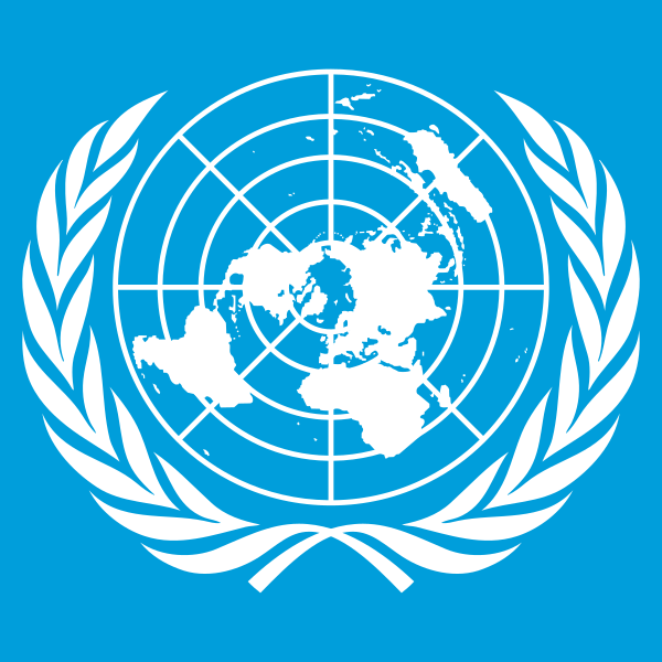 The emblem of the United Nations